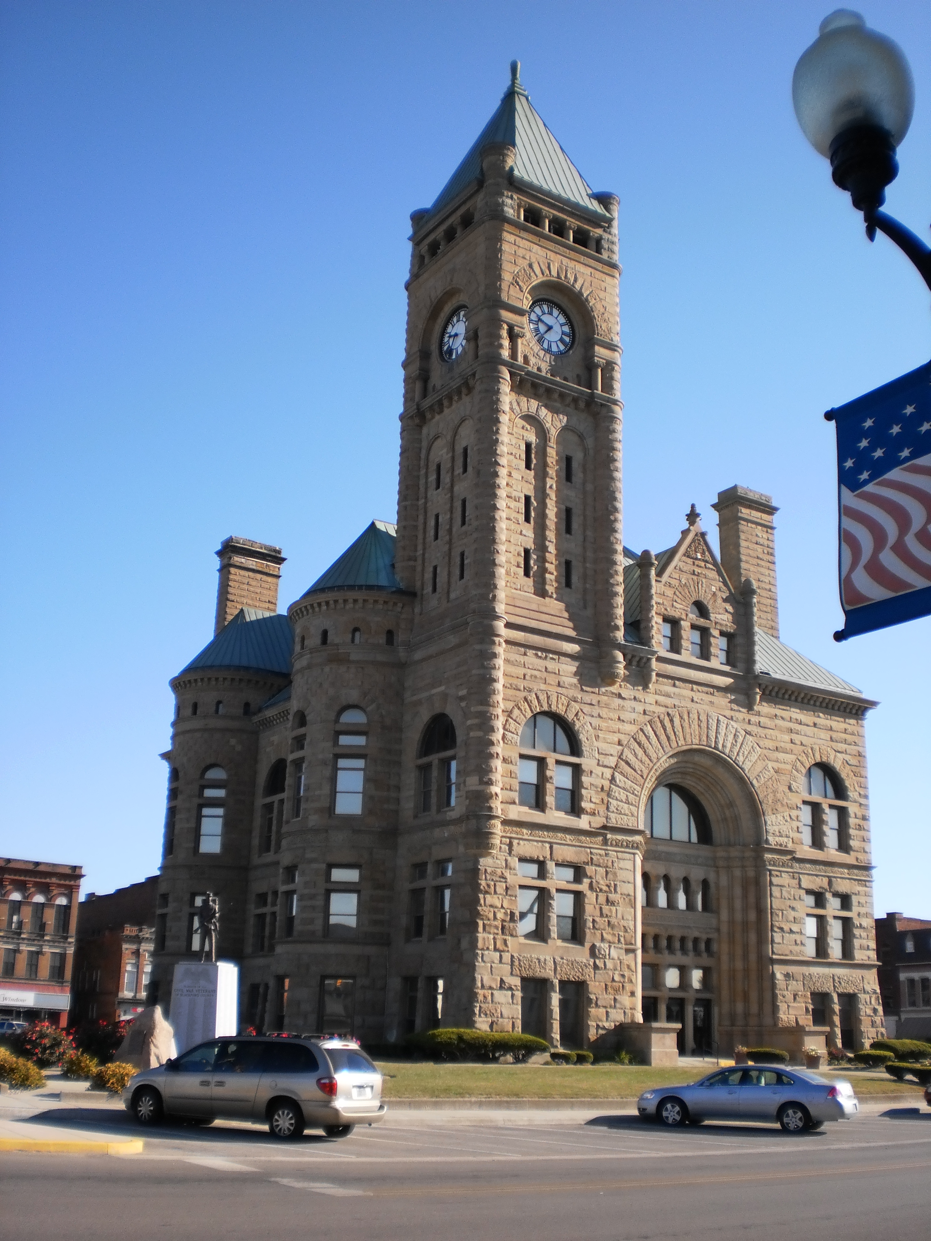 Blackford County courthouse in Hartford City, Indiana, USA. View from southwest corner of courthouse square.